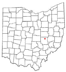 Unknown